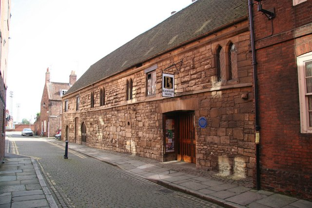 Blackfriars Theatre. Former Refectory Range of the 14th century Dominican Friary in Spain Lane, much restored in 1963, now a Theatre and Arts Centre